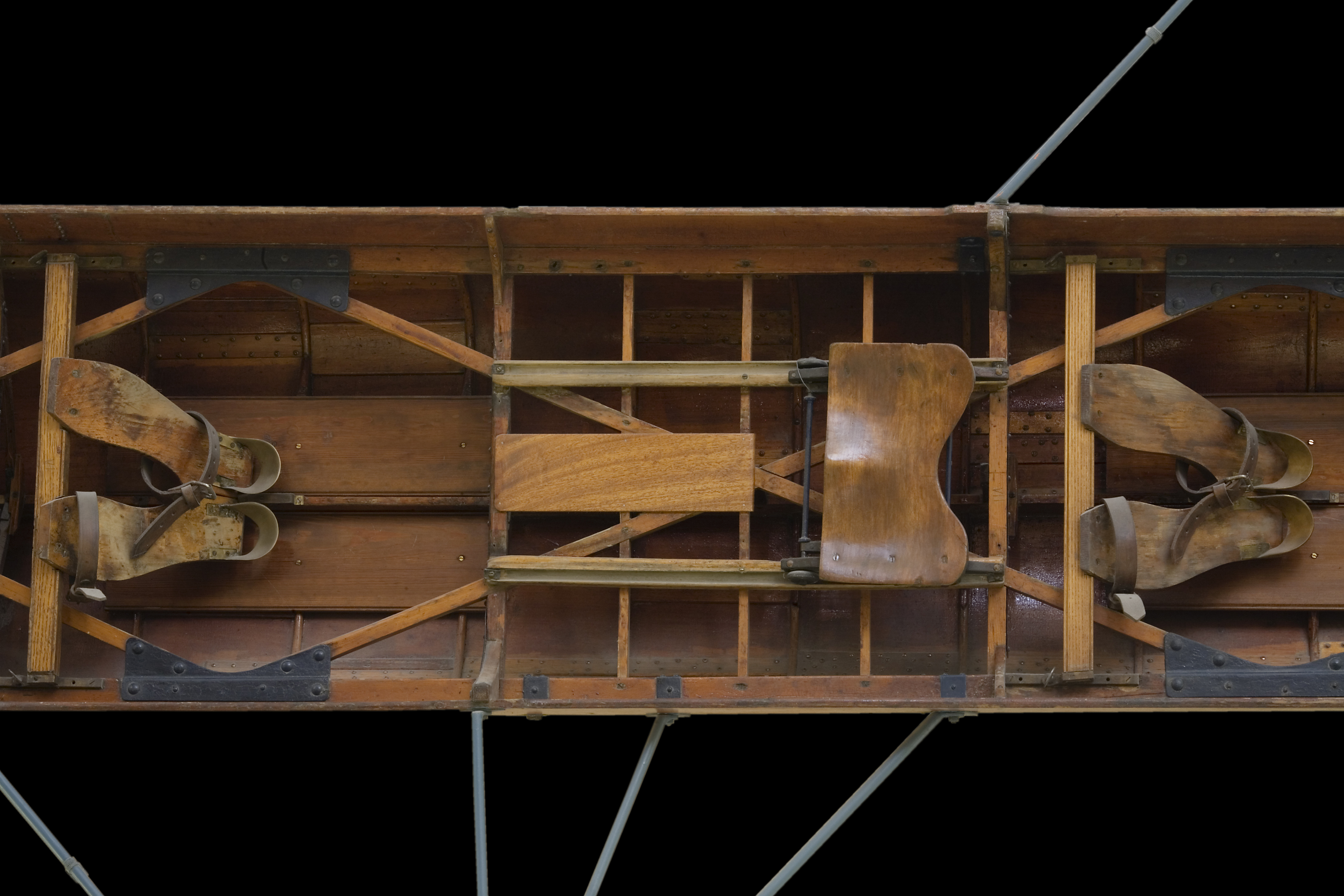 Detail of a rowing boat